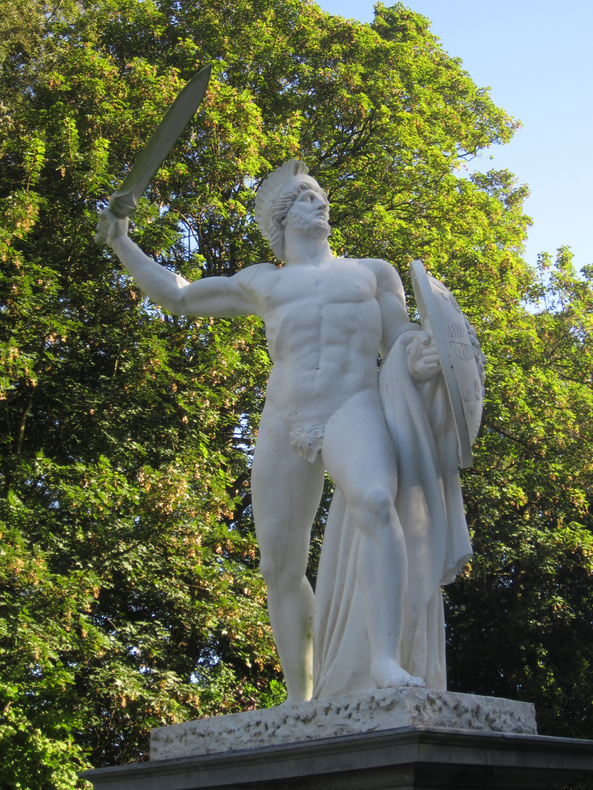 "Claudius Civilis" by Lodewijk Van Geel, situated in the Tervuren Park in Flemish Brabant. The statue was made in 1820-21 to embellish the garden of the Prince of Orange and was extensively restored in 2013.